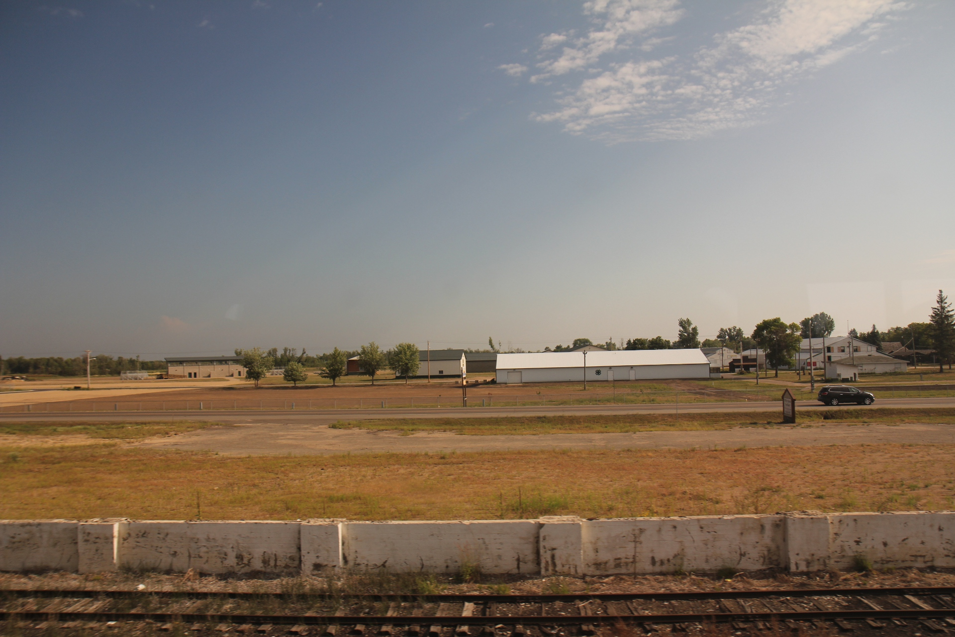 The fairgrounds for Wadena County, Minnesota from the Empire Builder.